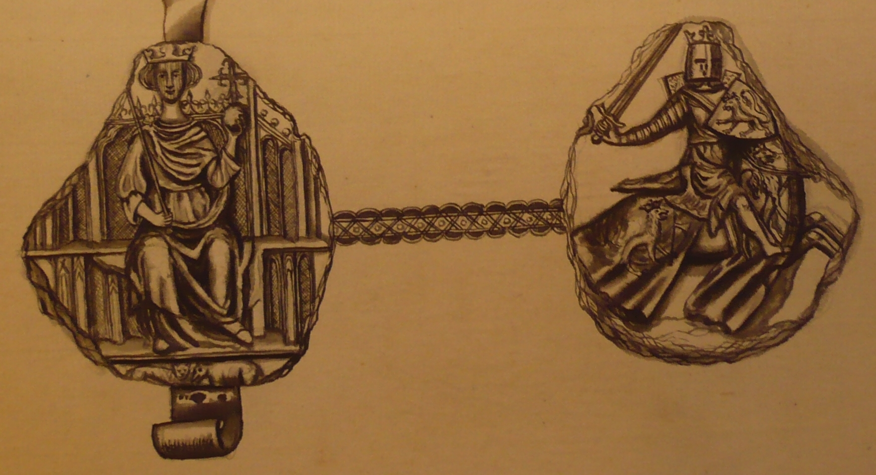 Arms heraldic of king Eirik Magnusson of Norway from 1298